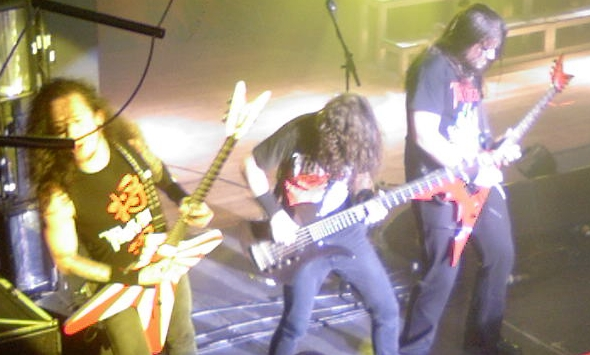 Trivium performing on the Unholy Alliance Tour, At the Sheffield Civic Hall from left to right Matt Heafy, Paolo Gregoletto and Corey Beaulieu.